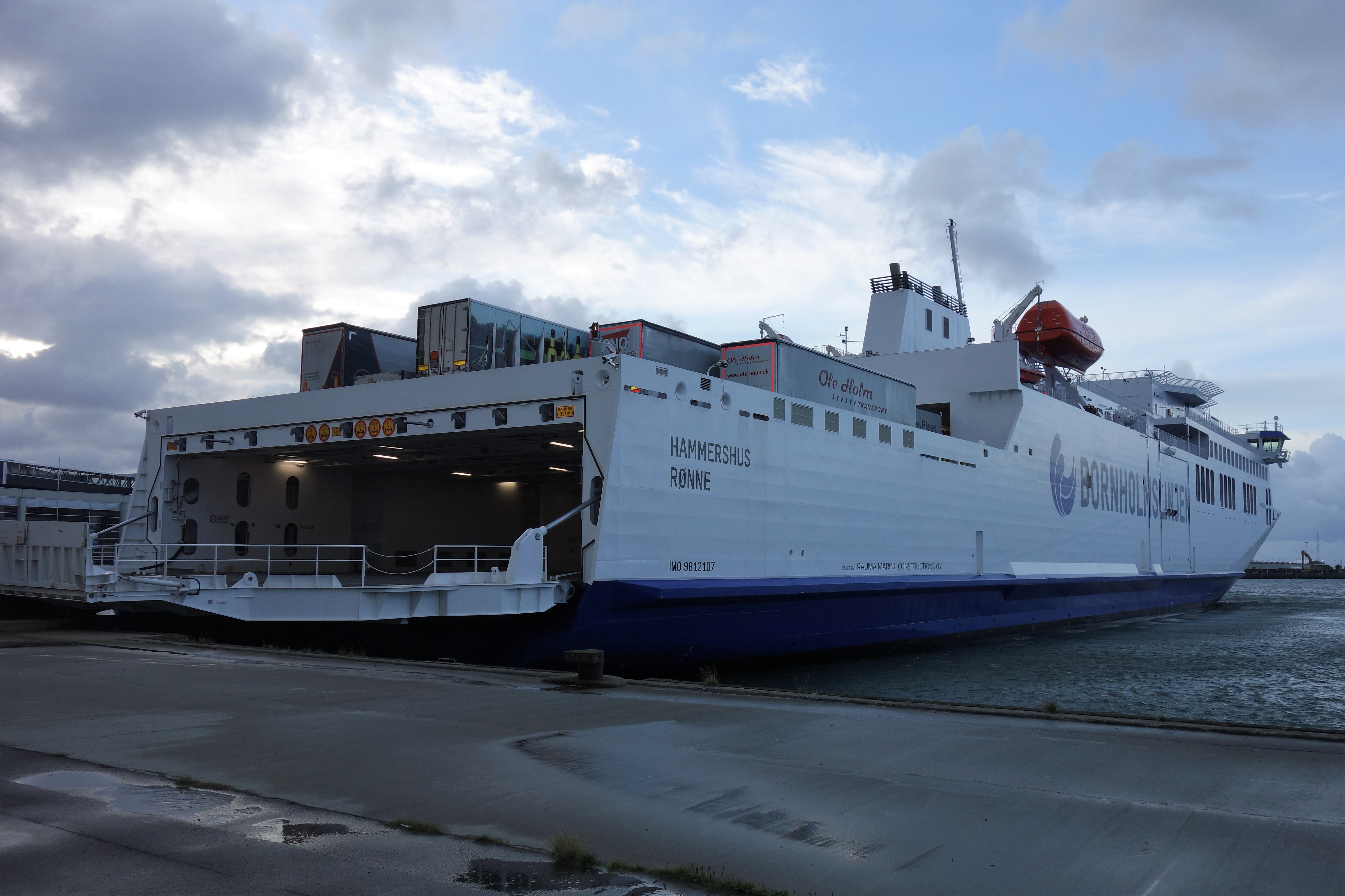 RoPax ferry Hammershus moored at the ferry terminal in Rønne